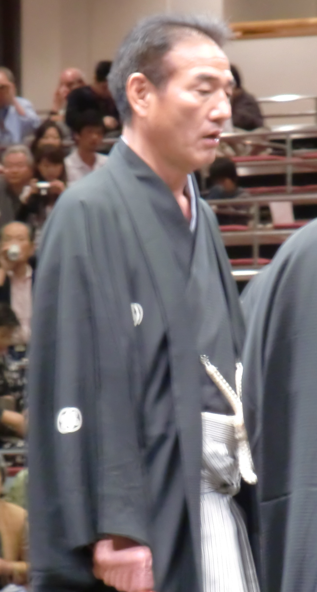 taken at May 2010 tournament